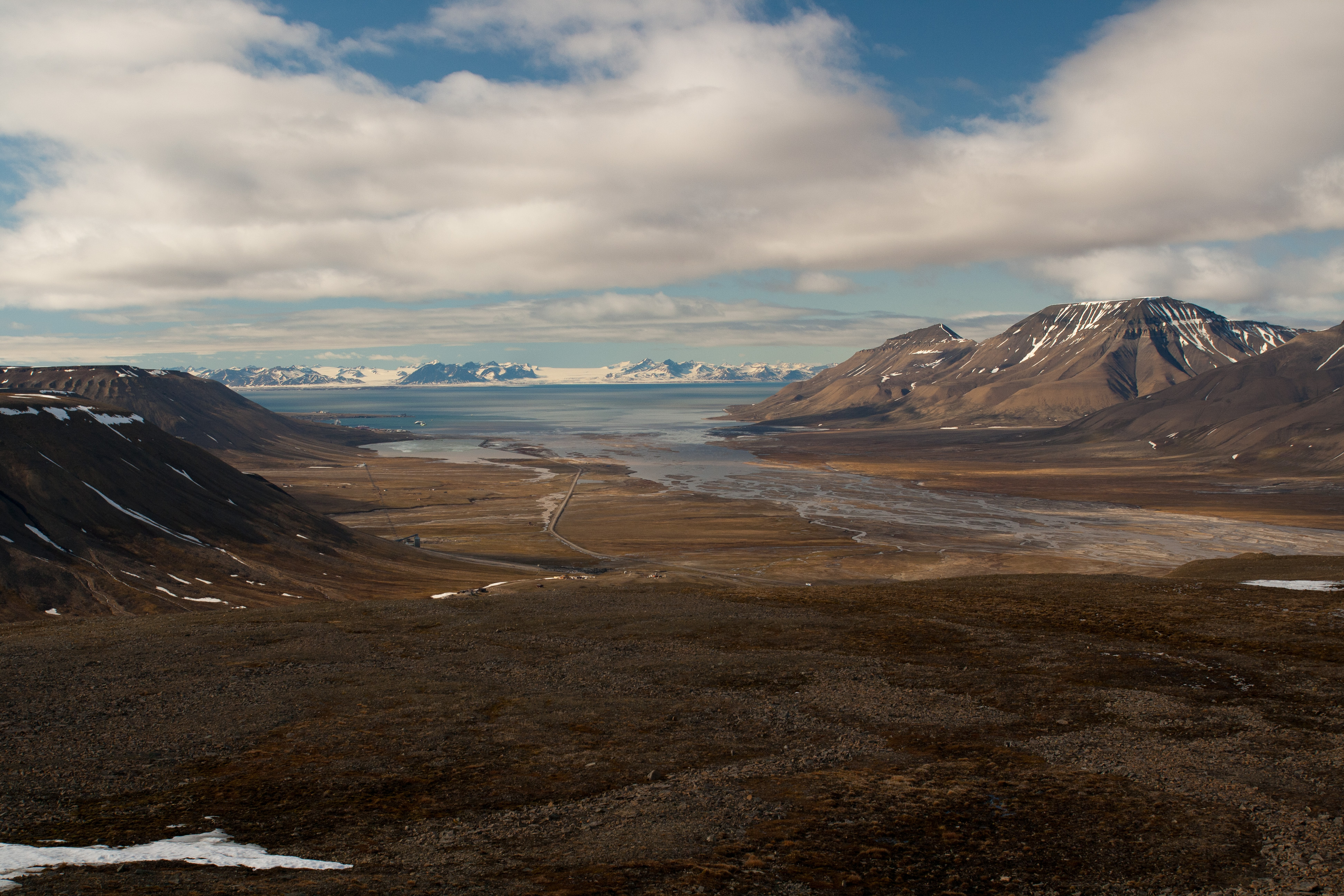 Adventdalen seen from the Kjell Henriksen Observatory